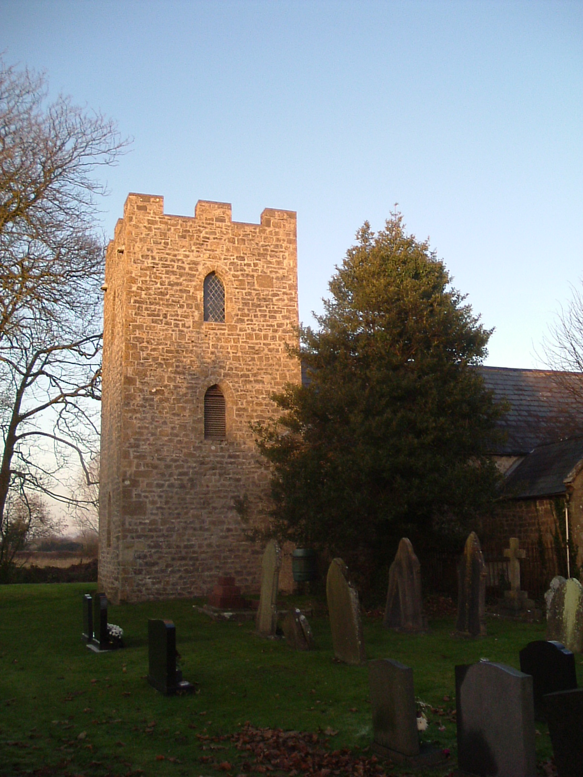 St Mary's Church, Goldcliff, Newport, Monmouthshire.